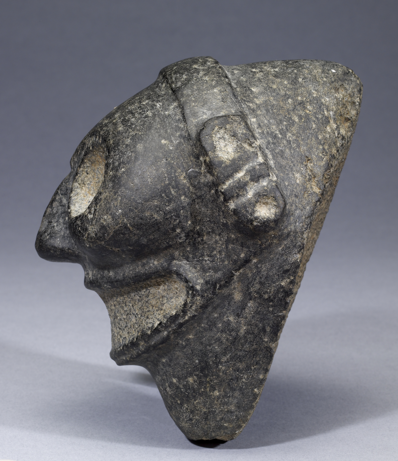 Taino art centered on cult objects associated with the veneration of "zemis"-revered deities, ancestors, or landscape spirits. The term also refers to the idols and fetishes that were believed to be inhabited by powerful spirits. Large, cadaverous stone heads are thought to represent the deity Maquetaurie Guayaba, lord of the Land of the Dead. "Zemis" were kept in the home or in sanctuaries where they were honored with food and gifts.